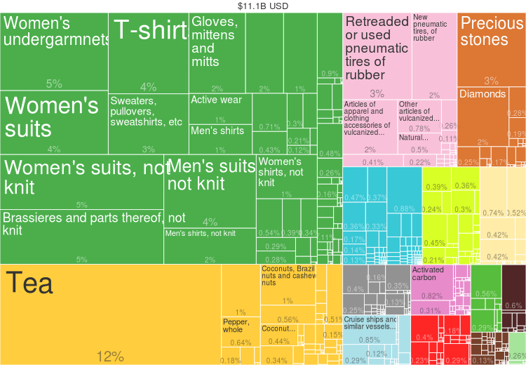 2014 Sri Lanka Products Export Treemap